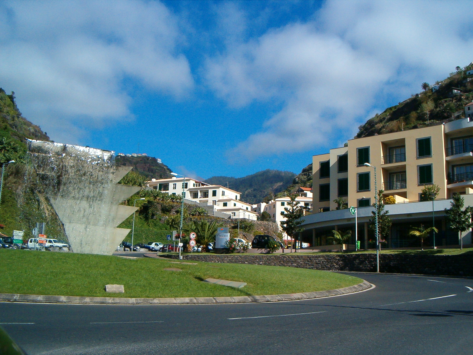 Ponta_do_Sol